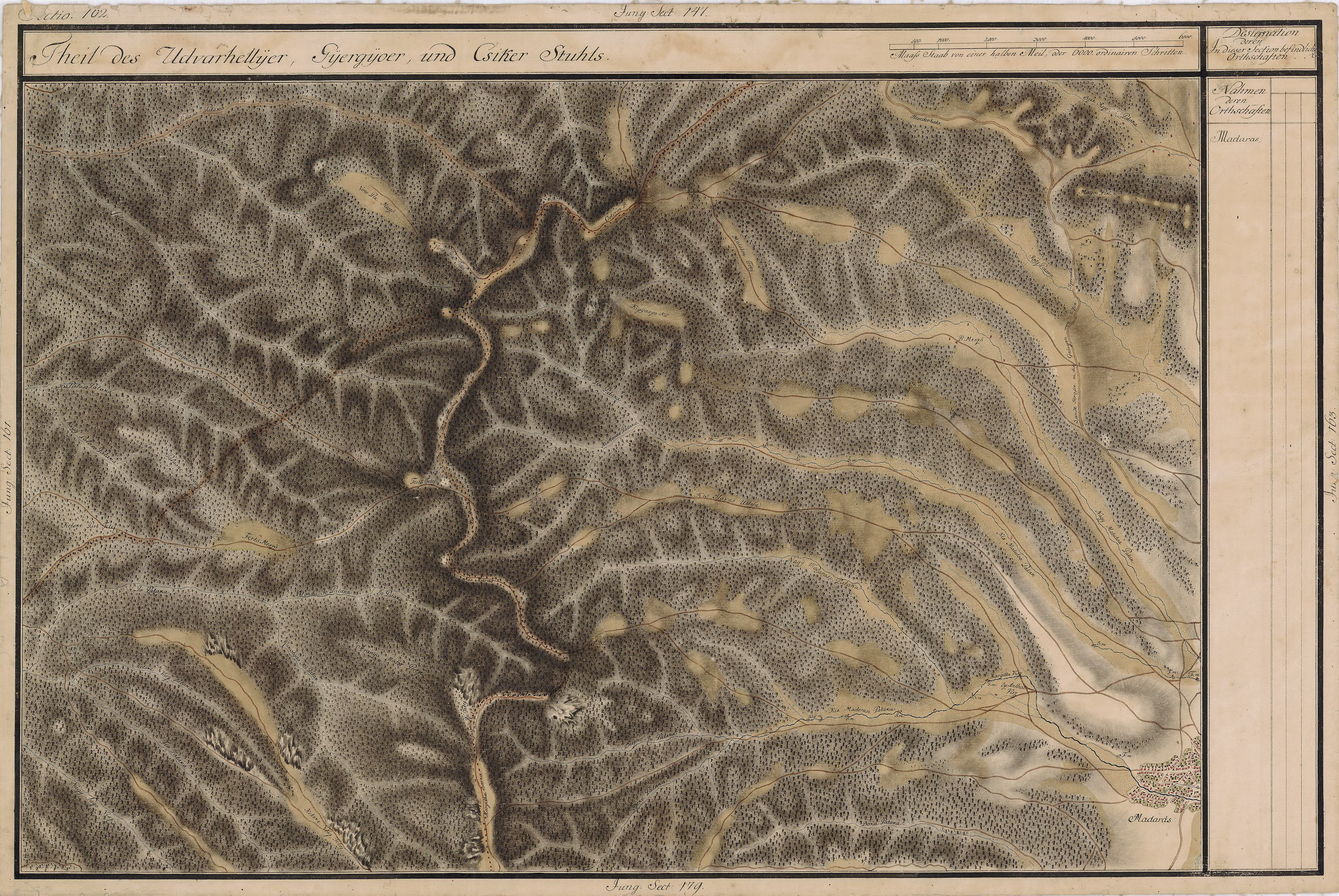 Grand Duchy of Transylvania, 1769-1773. Josephinische Landaufnahme pg.162